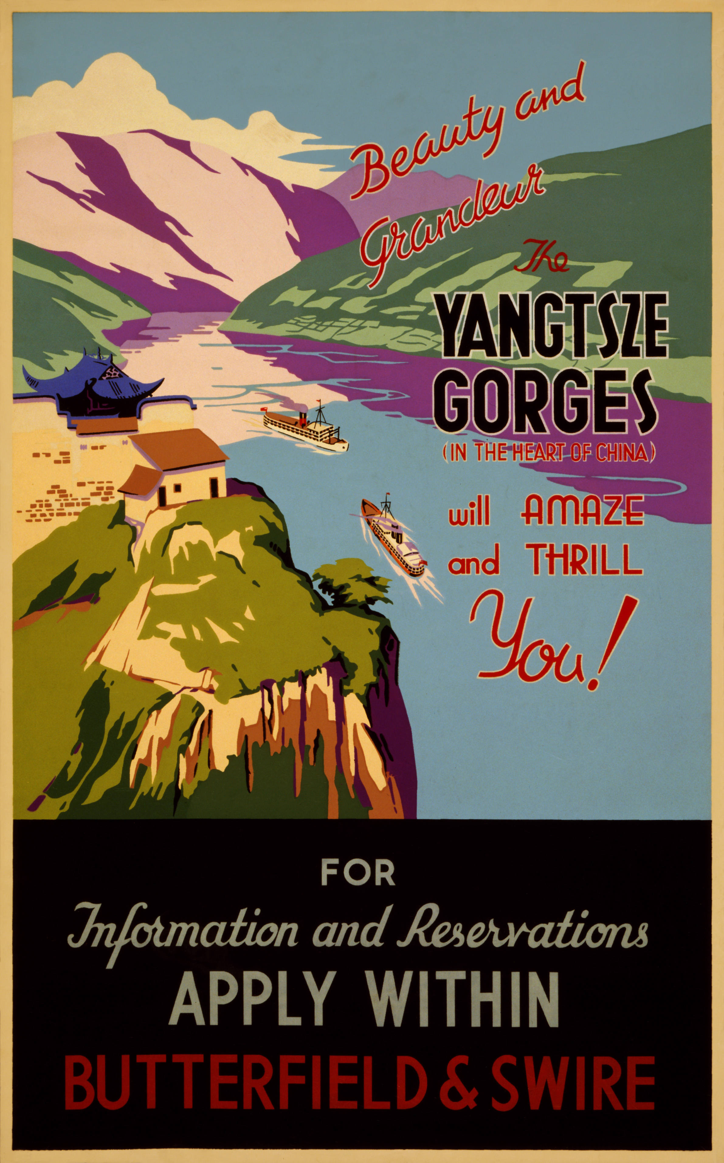 Travel poster showing tourist boats amid gorges on the Yangtze River. "Beauty and grandeur – The Yangtsze [Yangtze] Gorges in the heart of China will amaze and thrill you! For information and reservations apply within – Butterfield & Swire." 1 print (poster) : screen print, color ; 101 x 62 cm.